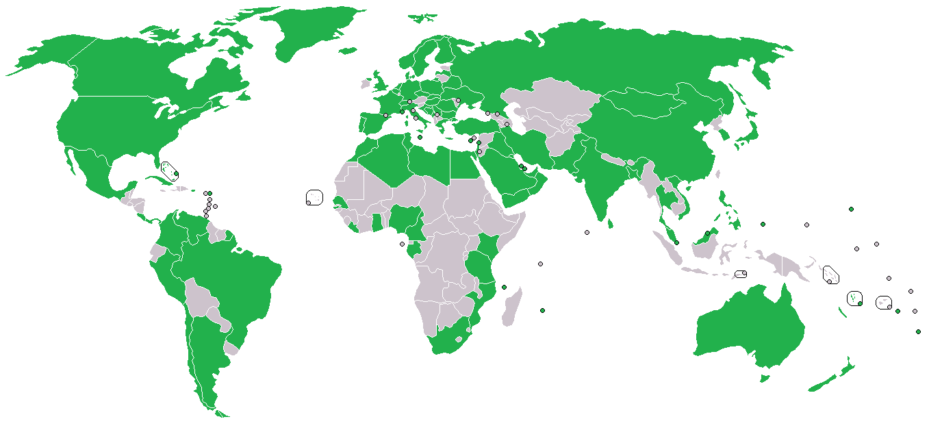 dark green - members